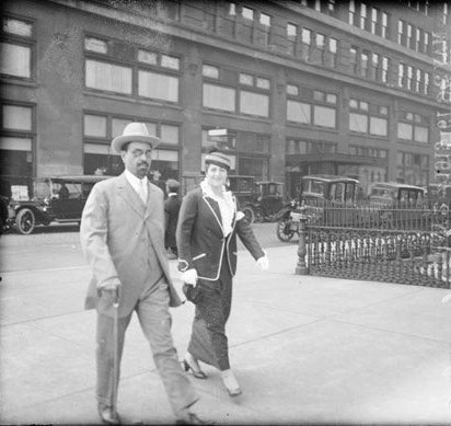 Group portrait of Jagatjit Singh, the Maharajah of Kapurthala, and his wife Anita Delgado walking on a plaza near an ironwork fence. Automobiles are parked on the street behind them. This image was probably taken in Chicago, Illinois.